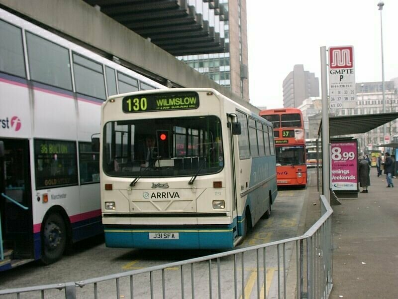 Arriva Midlands North 1311 (J31 SFA), a 1992 Leyland Swift/Wright Handybus, in Piccadilly, Manchester.